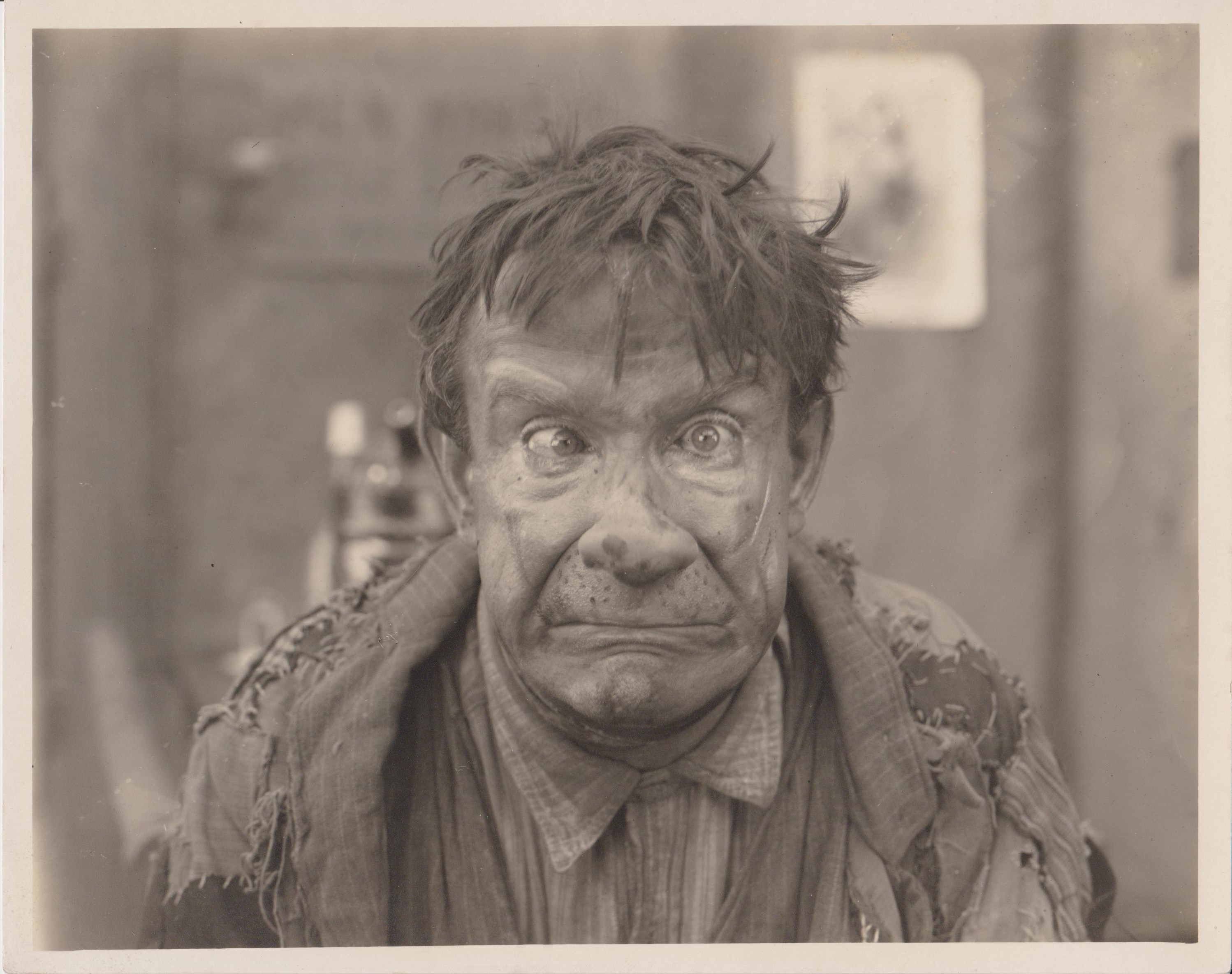 Harry Watson, Jr acting in a film circa 1923.